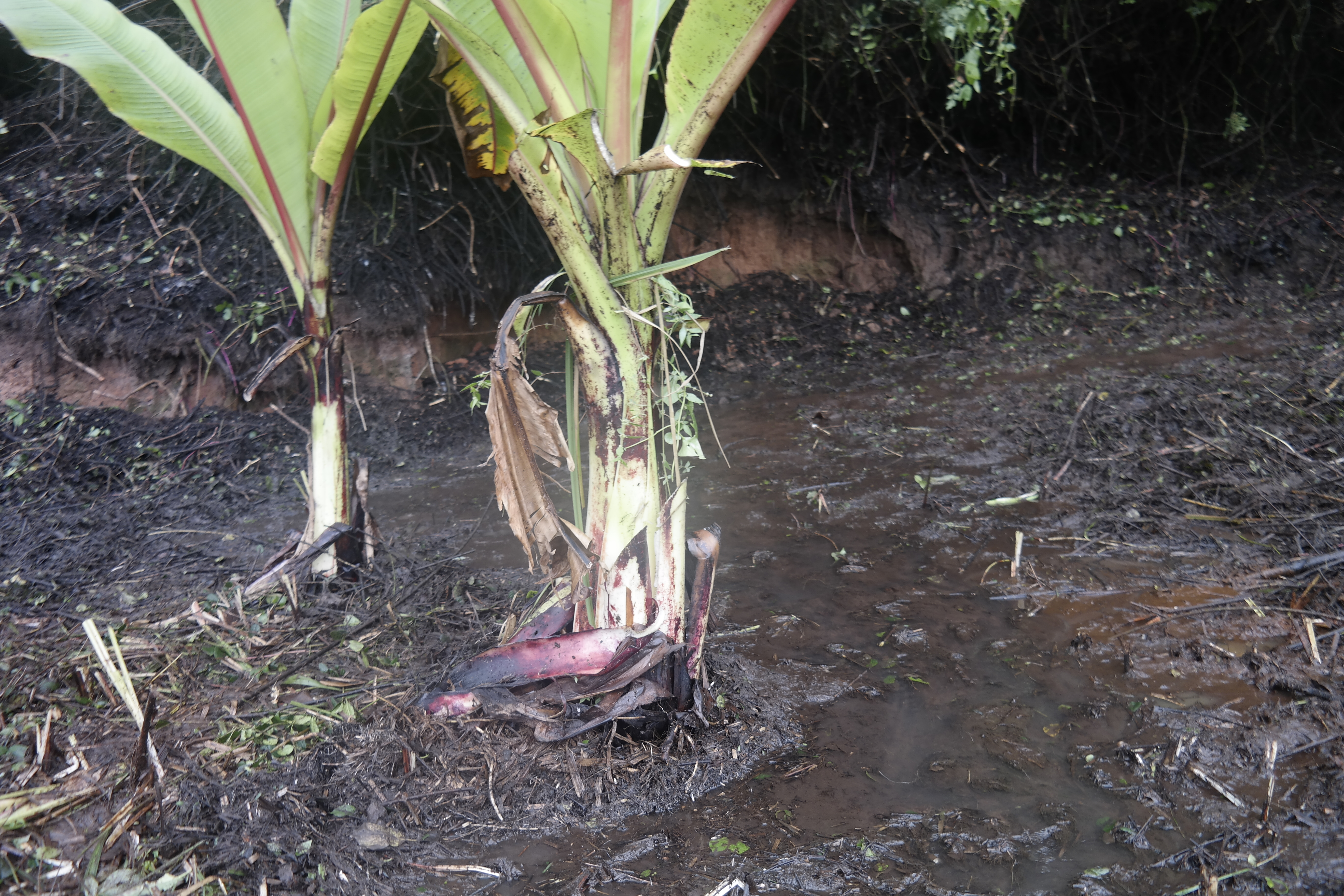 Water source at Nandala village in Mufindi district